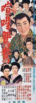 1956 Japanese movie poster for 1956 Japanese movie Fighting Birds (喧嘩鴛鴦 Kenka Oshidori).